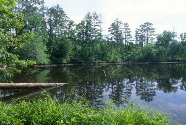 Uwharrie National Forest, North Carolina